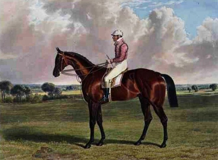 1840 Epsom Derby winner Little Wonder. Painting after John Frederick Herring senior (1795-1865)